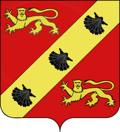 coat of arms of Houlgate (Calvados) File reworked, reflections removed and file saved in bitmap for ease with future use and edition.